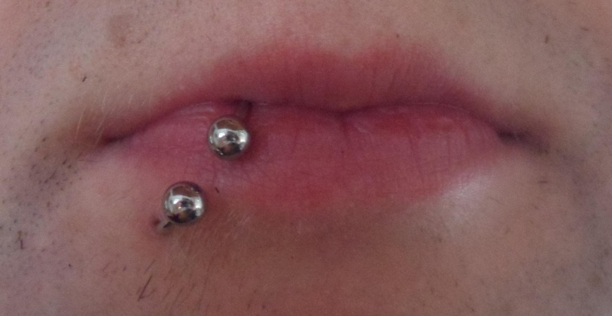 Me with labret piercing